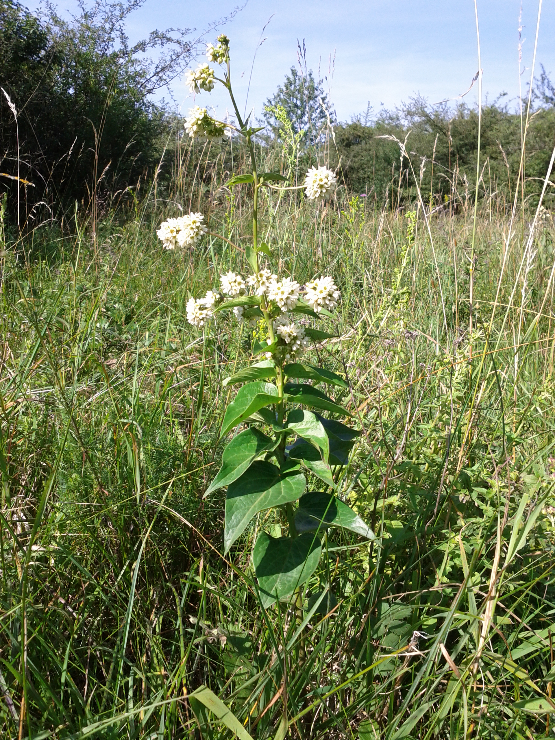 Habitus Taxonym: Vincetoxicum hirundinaria ss Fischer et al. EfÖLS 2008 ISBN 978-3-85474-187-9 Location: Stetter Berg, district Korneuburg, Lower Austria - ca. 250 m a.s.l. Habitat: semi-dry grassland